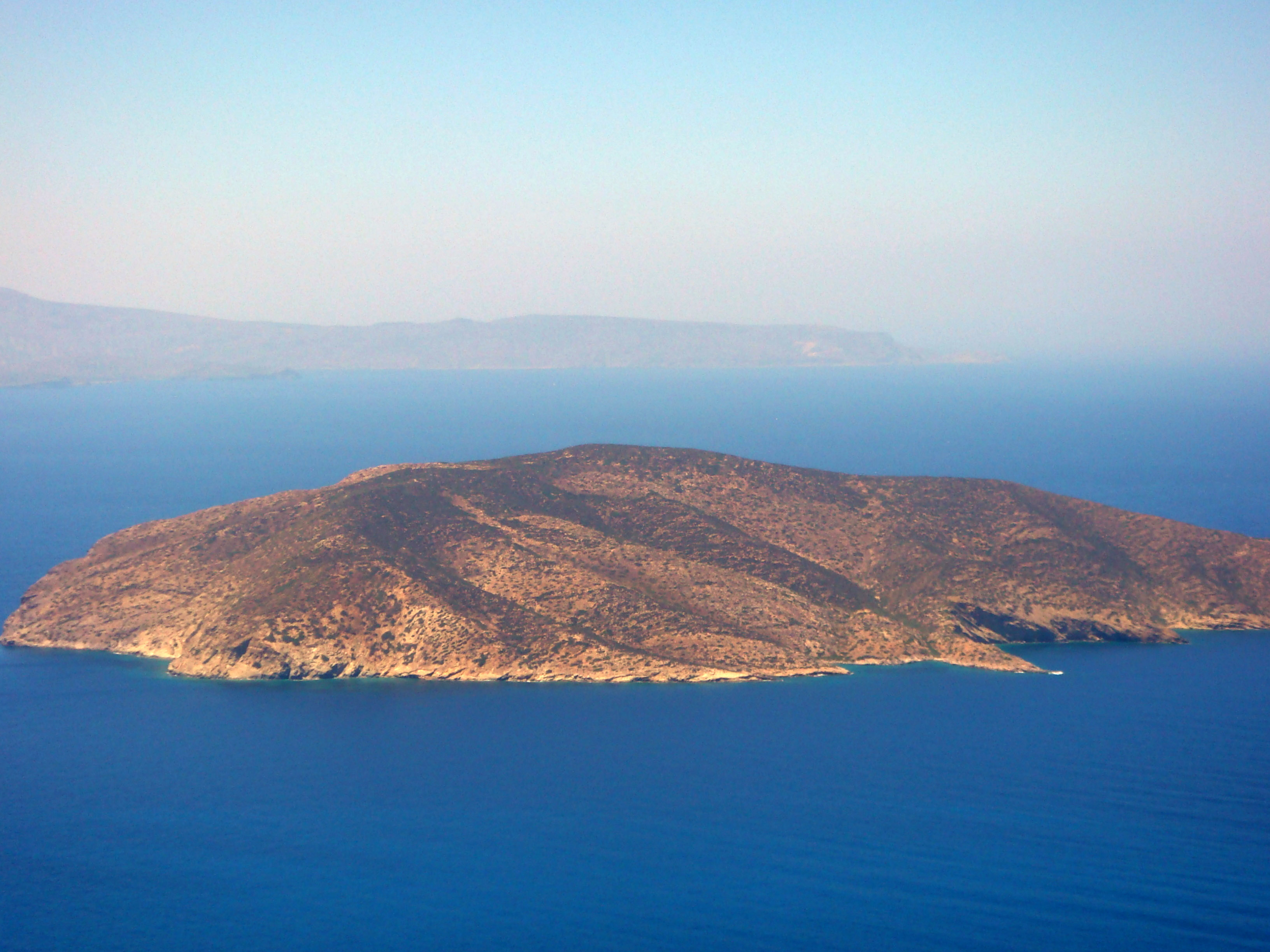 The isle of Psira (Ψείρα in Greek means louse) as seen from Platanos, Lasithi prefecture.